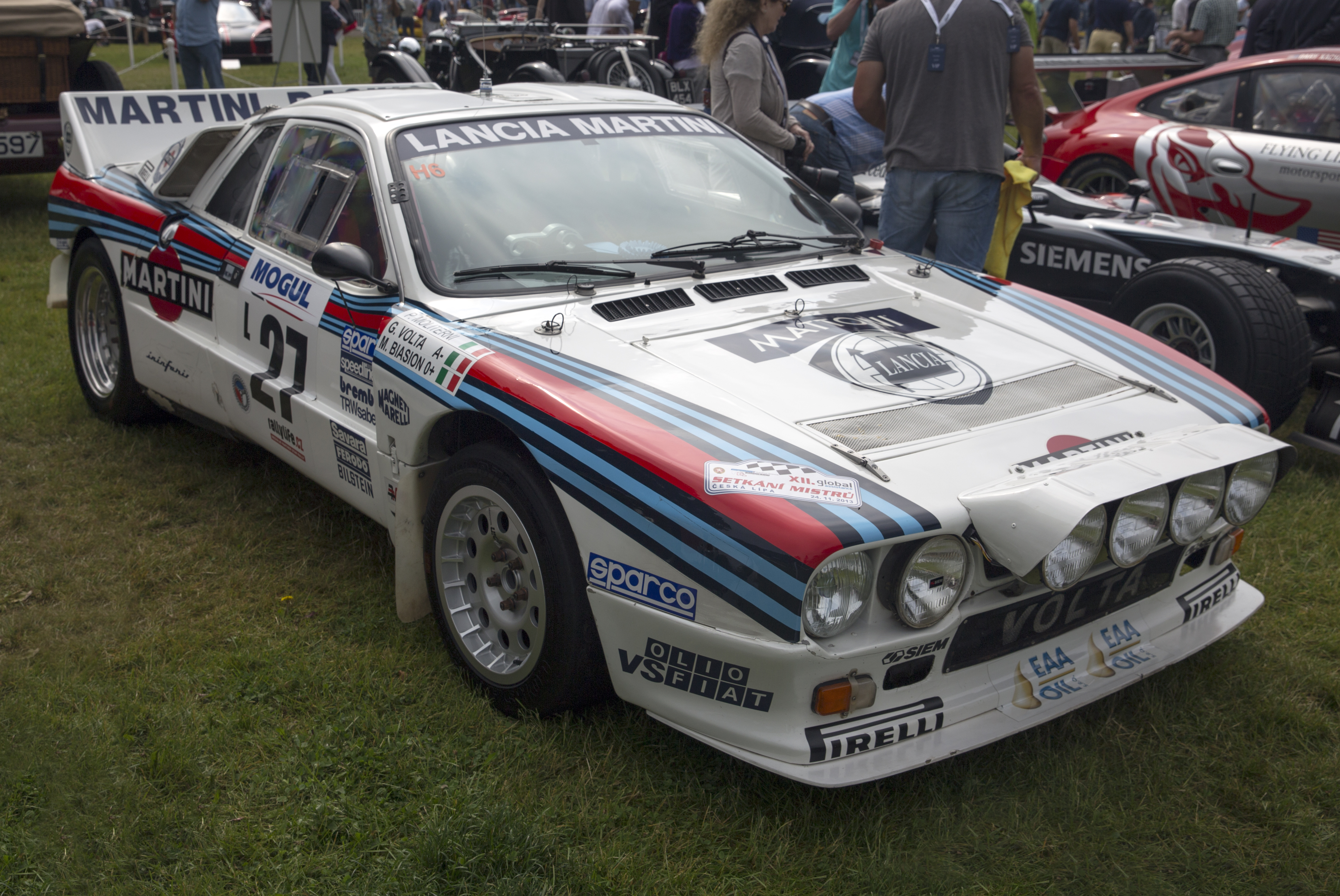 1983 Lancia 037 Evo 2 at the 2019 Greenwich Concours d'Elegance. Build date November 1983, campaigned at the highest European levels until the demise of Group B after 1986. The 11th of 20 Evo2 037s built. Currently part of the John Campion collection.